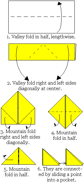 Diagram of units used in Chinese modular paper folding, known as block origami, 3D origami, or Golden Venture folding.